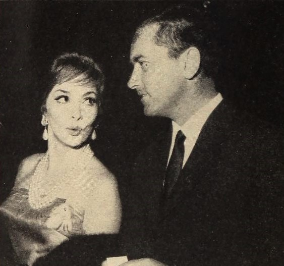 Gina Lollobrigida with her husband Dr. Milko Skofić, 1960